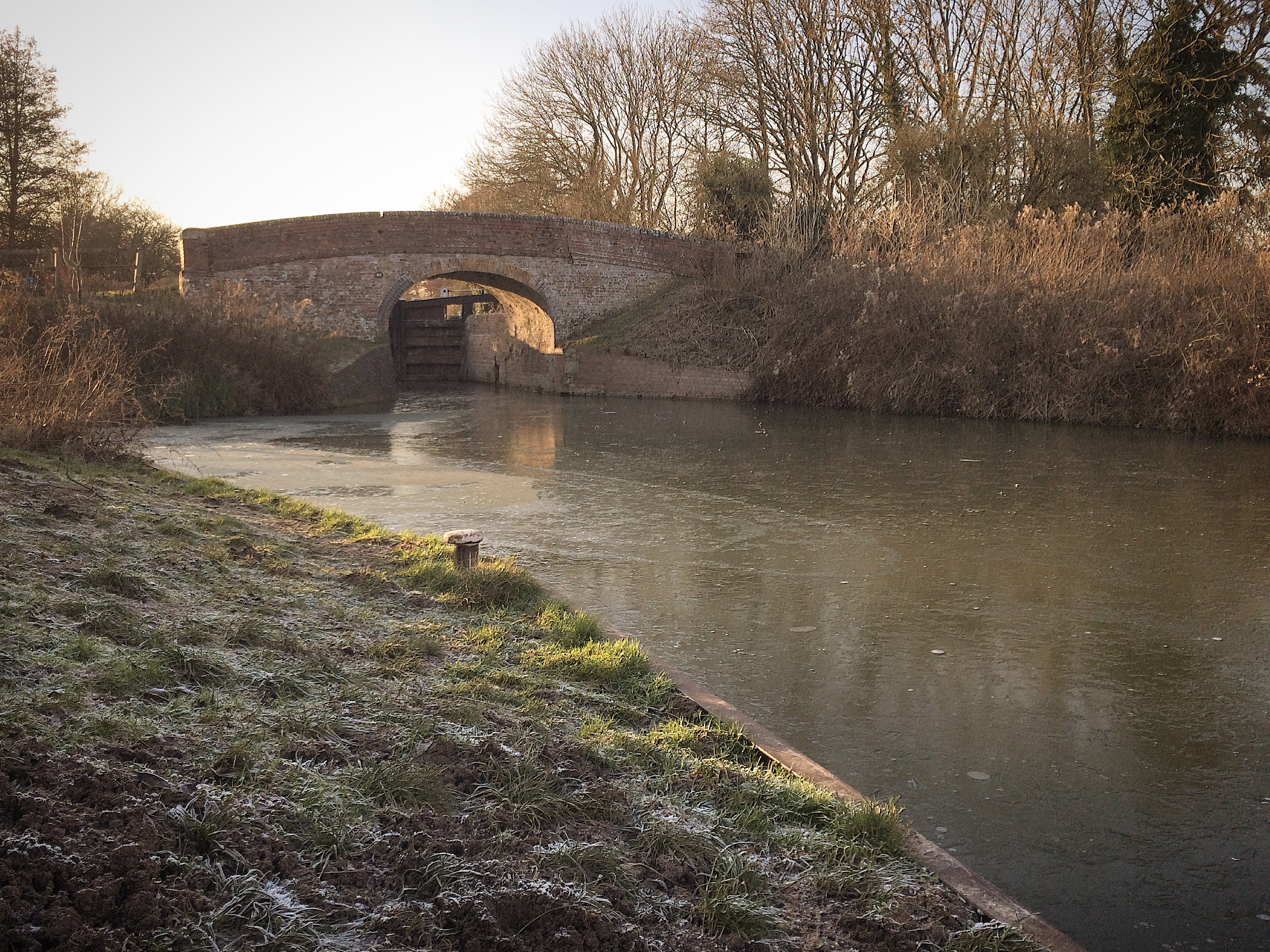 Avon and Kennet canal in winter, bridge near Newbury